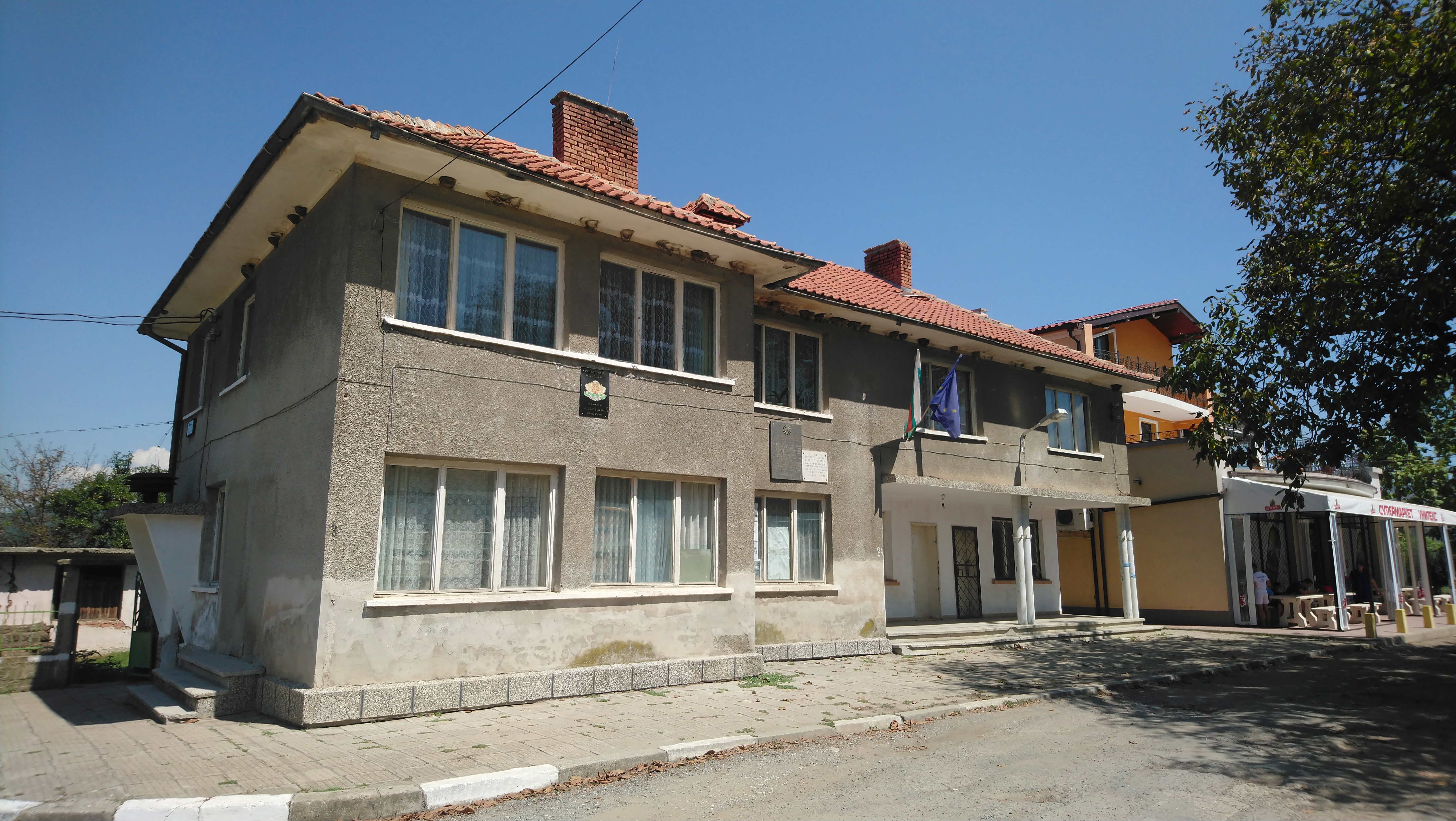 Memorial plaques in village Daskotna